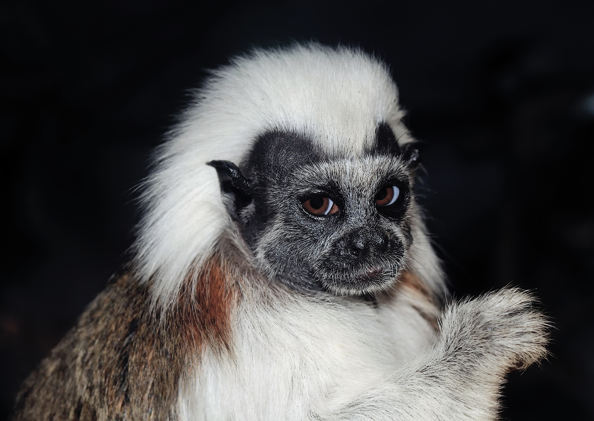 Cottontop Tamarin in the Tierpark Bad Pyrmont in Bad Pyrmont, Lower Saxony, Germany